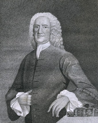 Portrait of Hopton Haynes (1672?–1749), English employee of the Royal Mint and theological writer.